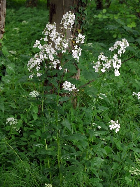 Dame's Violet (Hesperis matronalis). An attractive white form of the plant 1360523